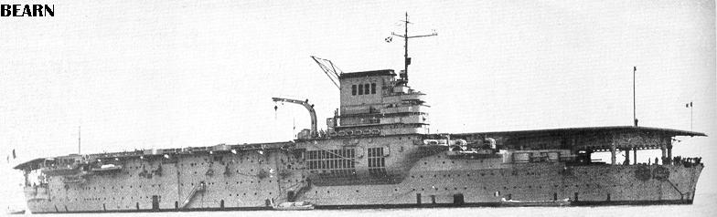 The French aircraft carrier Béarn after refit (1935).